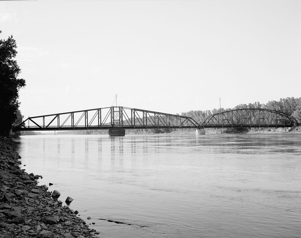 Part of the HAER record.